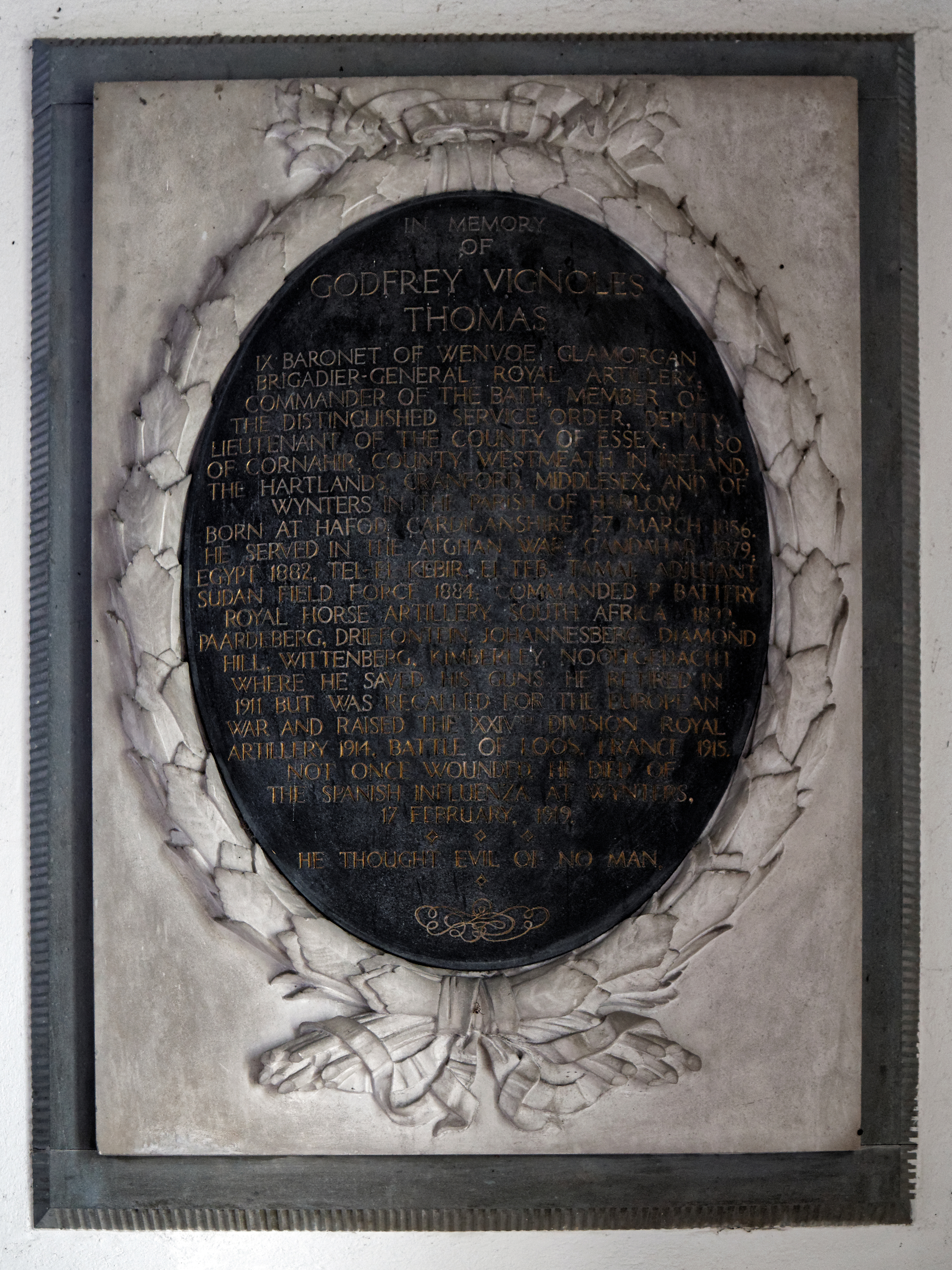 Tablet memorial plaque in white and black marble to Sir Godfrey Vignoles Thomas, 9th Baronet of Wenvoe (1856 – 1919), British Army officer and Deputy Lieutenant of Essex, in the Church of St Mary Magdalen at Magdalen Laver, Essex, England.Camera: Canon EOS 6D with Canon EF 24-105mm F4L IS USM lens.Software: large RAW file lens-corrected, optimized and downsized with DxO OpticsPro 10 Elite, Viewpoint 2, and Adobe Photoshop CS2.